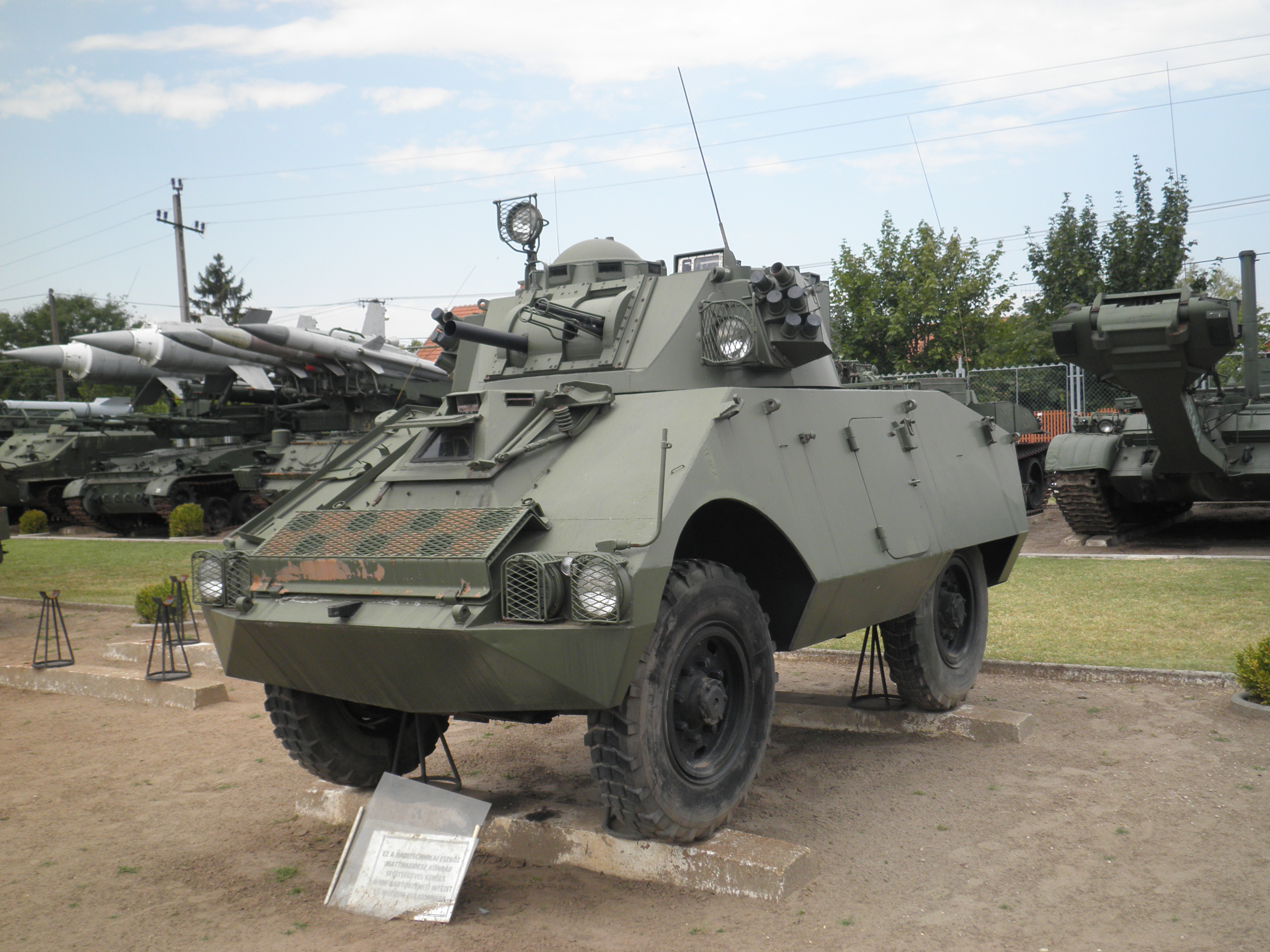 Rare belgian FN 4RM-62F AB MiMo self-propelled mortar in Army History Museum and Park in Kecel